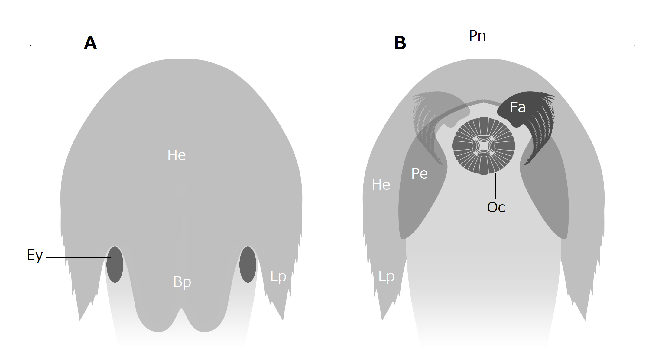 External morphology of the head of Cambroraster falcatus, a cambrian hurdiid radiodont. A: 背面 Dorsal view B: 腹面 Ventral view Ey: 眼 Eye Fa: 前部付属肢 Frontal appendage He: 背側の甲皮 H-element Bp:（背側の甲皮の）中央の突起 Bilobate posterior region Lp:（背側の甲皮の）両後端の突起 Posterolateral process Oc: 口と歯 Oral cone Pe: 両腹側の甲皮 P-element Pn:（両腹側の甲皮の）棒状の連結部 P-element neck References 参考文献: A new hurdiid radiodont from the Burgess Shale evinces the exploitation of Cambrian infaunal food sources (July 2019)